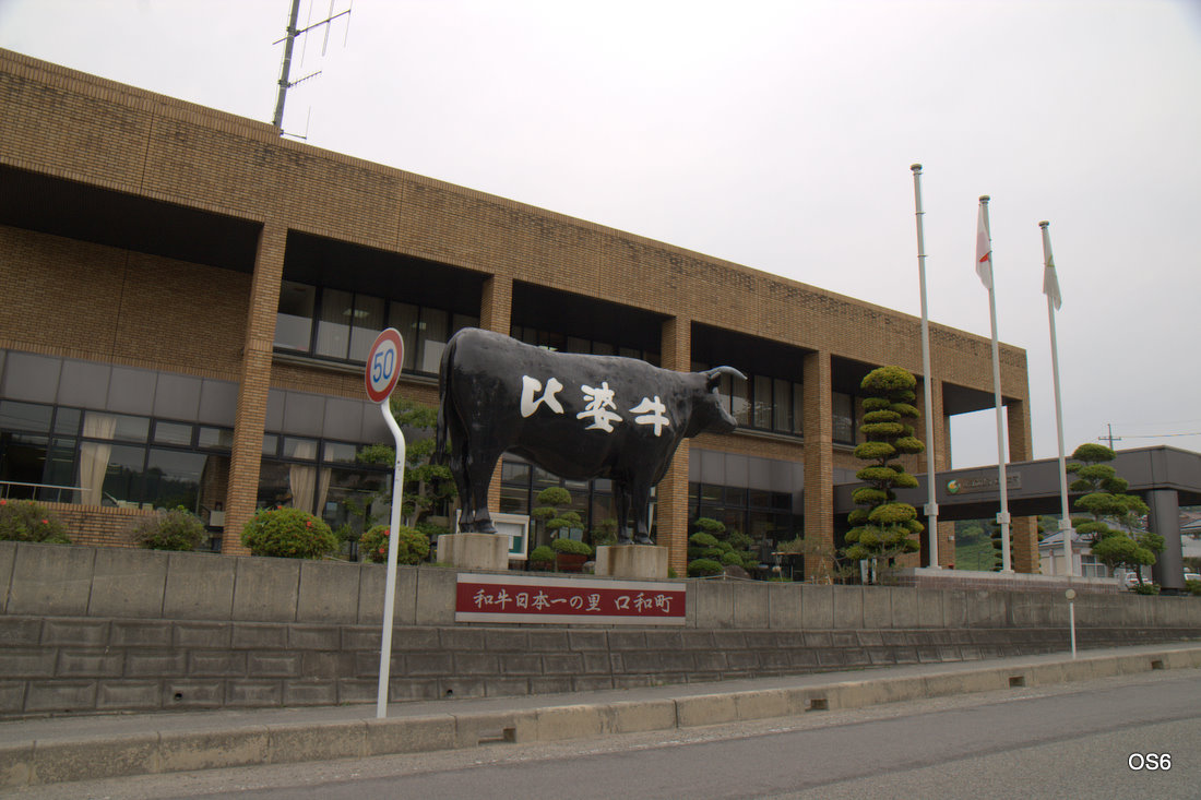 庄原市役所口和支所 (Shobara city Kuchiwa branch office)